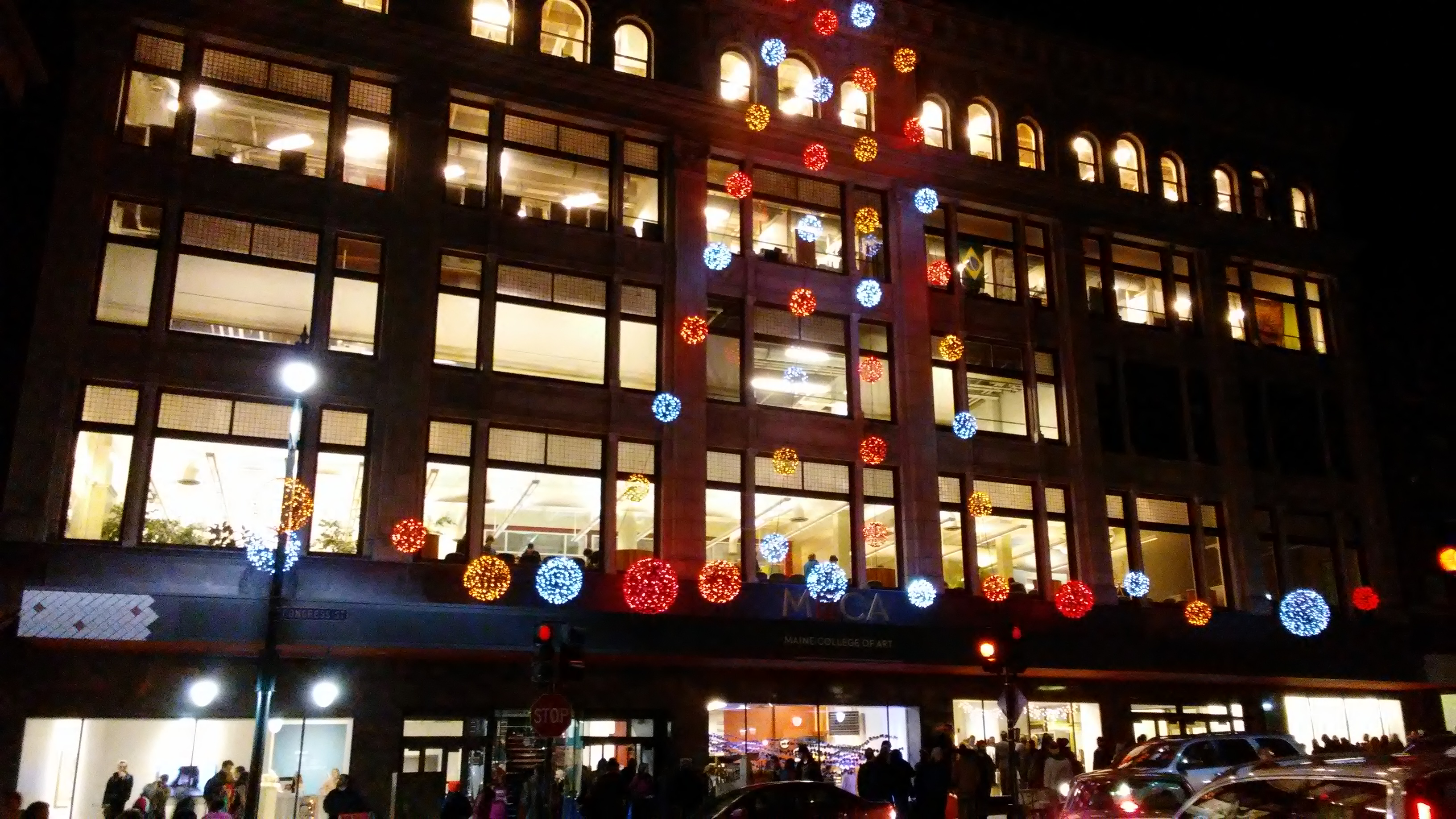 MECA during the holidays.